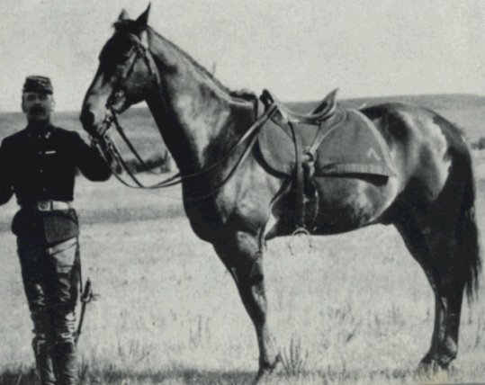 Comanche in Fort Riley